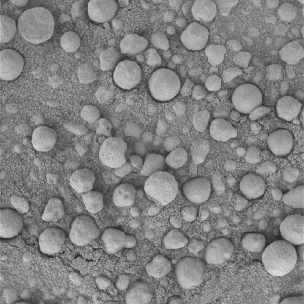 Hematite spherules on Mars, nicknamed "blueberries" due to their appearance in false-color photographs. This three-centimeter by three-centimeter (1.2-inch by 1.2-inch) image of the soil target, informally called "Punaluu" after the black sand beaches of Hawaii, was taken by the Mars Exploration Rover Opportunity's microscopic imager during the rover's "Eagle Crater" soil survey. The largest particles are similar to those seen in the crater outcrop. There are also some smaller, more irregular rounded particles that have likely been transported by wind. The Moessbauer spectrometer's study of this target pushed some of the particles into the surrounding fine-grained sand. Microscopic Imager Non-linearized Full frame EDR acquired on Sol 52 of Opportunity's mission to Meridiani Planum at approximately at approximately 13:56:01 Mars local solar time.